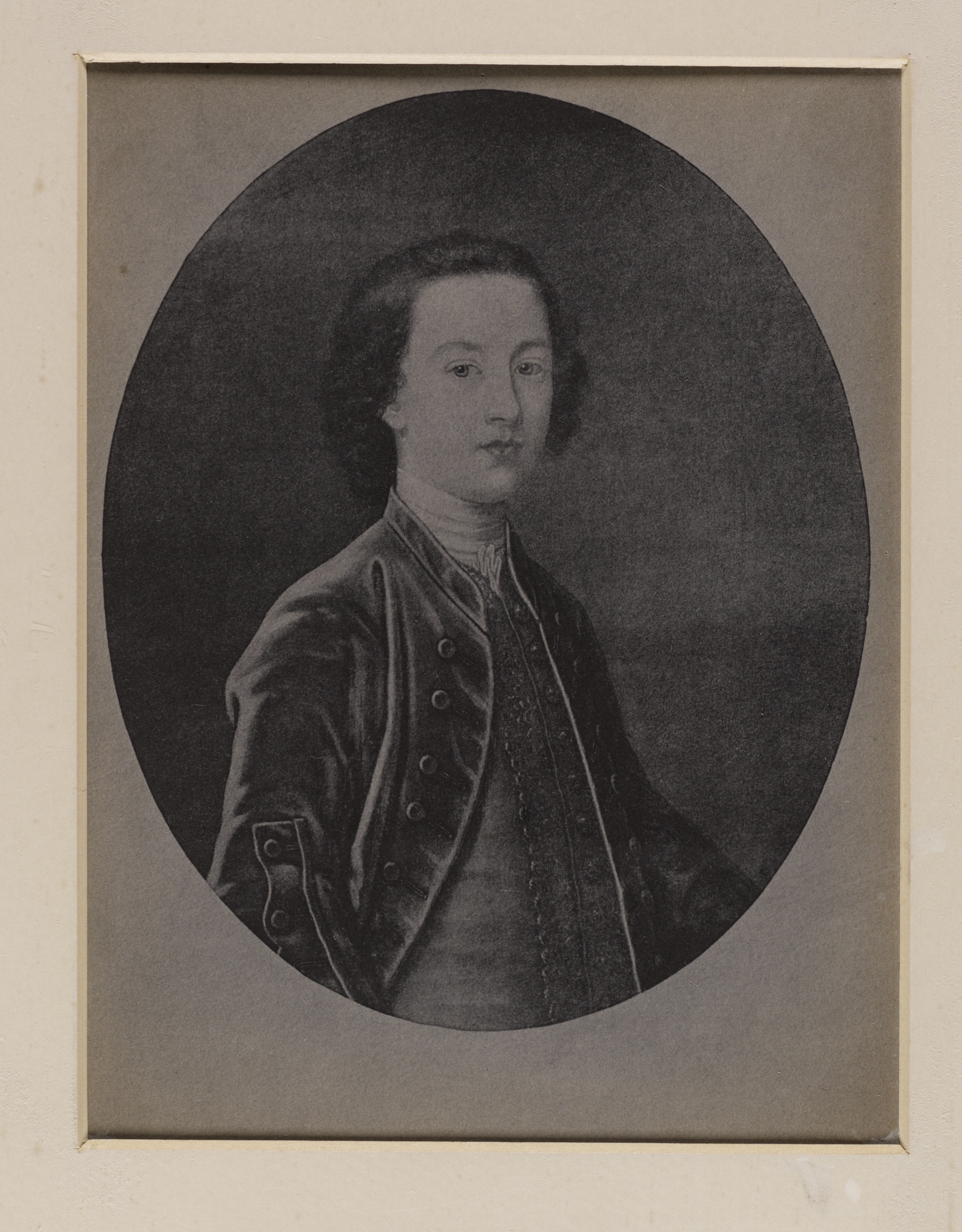 Lord Lewis GORDON (d.1754) Portrait of Lord Lewis Gordon- young/middle-age, oval portrait of waist up